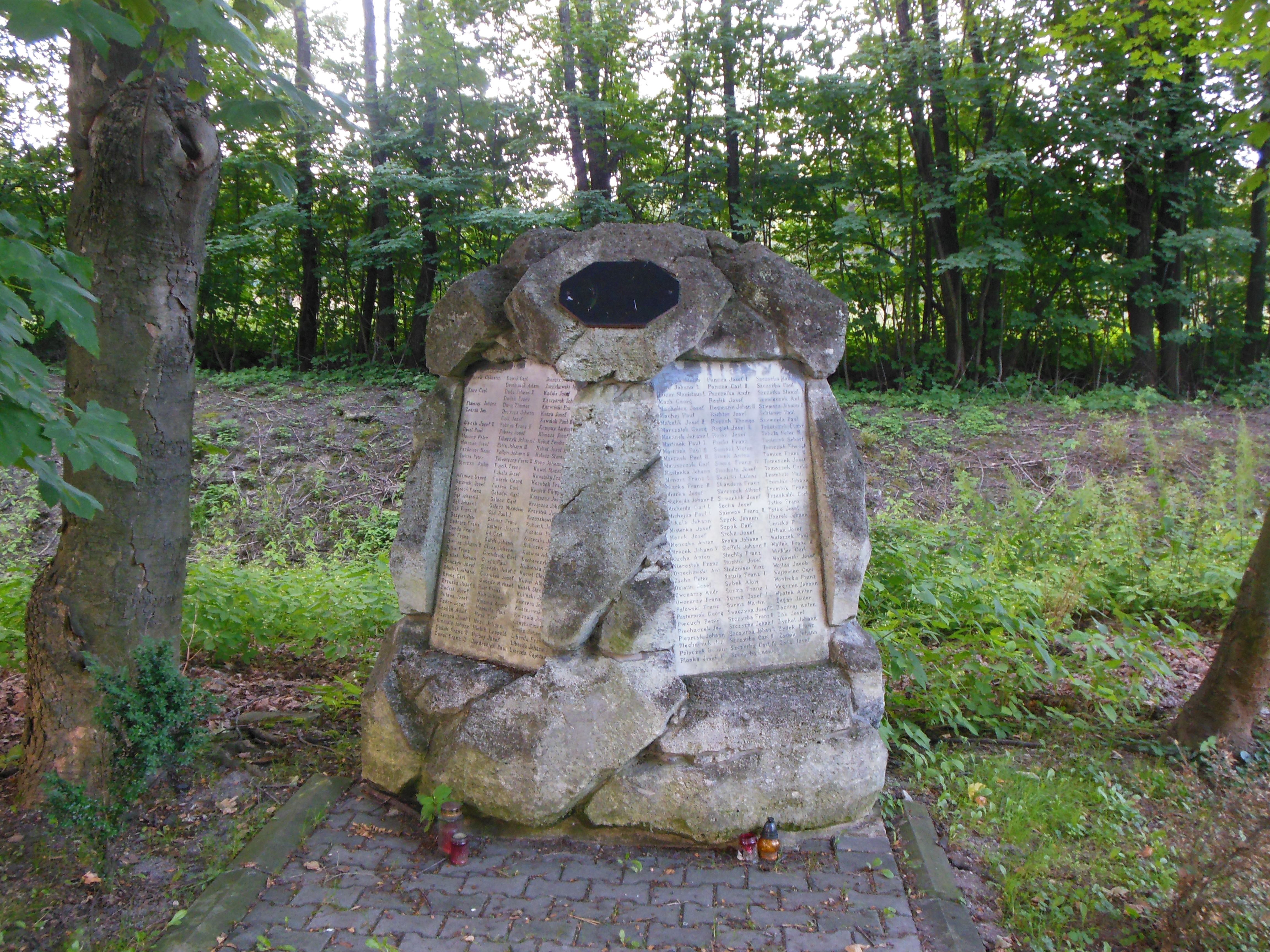 Memorial to coal mines disaster in Karviná in 1894. Cemetery in Karviná-Doly. Karviná District, Moravian-Silesian Region, Czech Republic